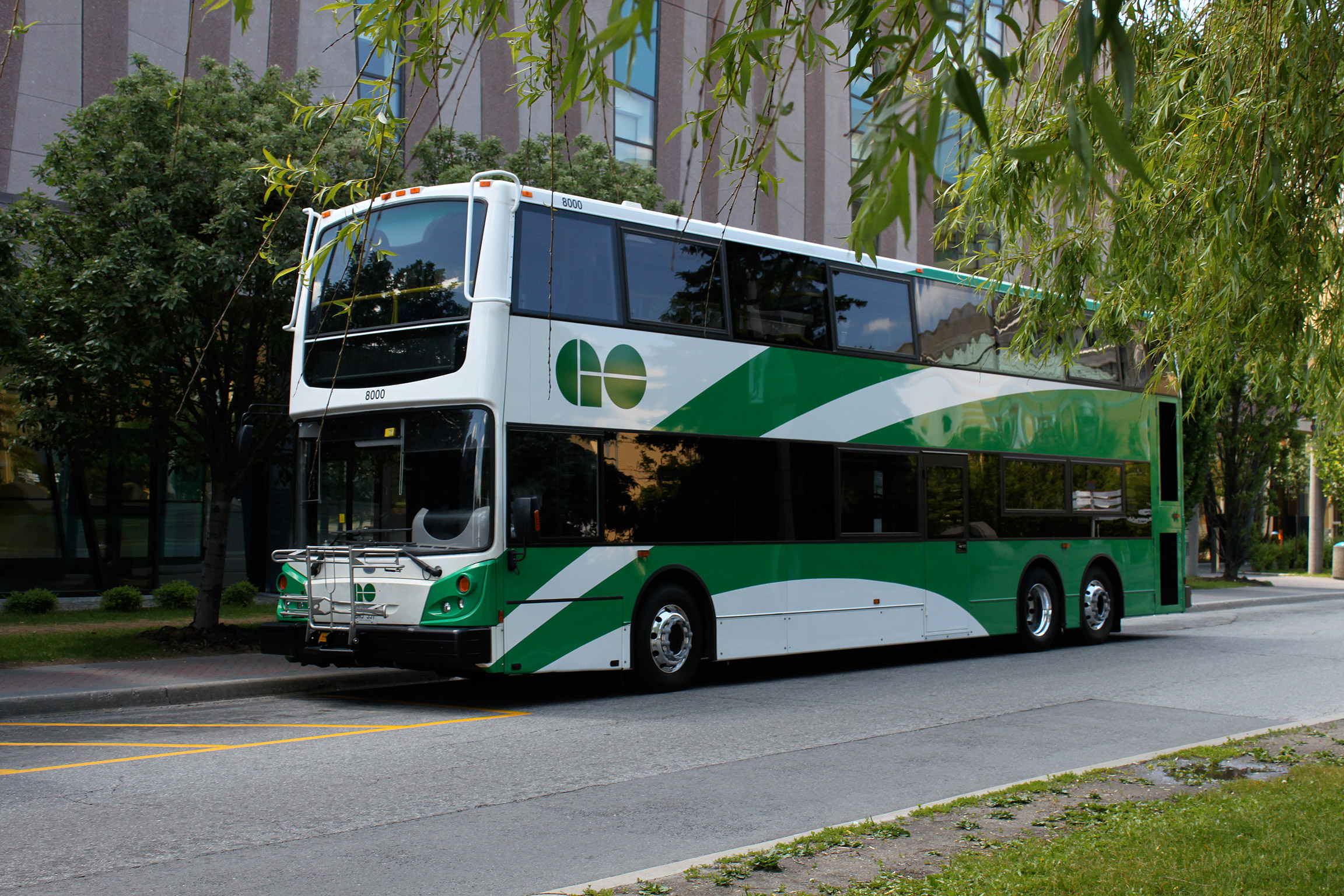 An Alexander Dennis Enviro500 double-decker bus belonging to GO Transit. Seen at York University in the northern suburbs of Toronto, Canada.